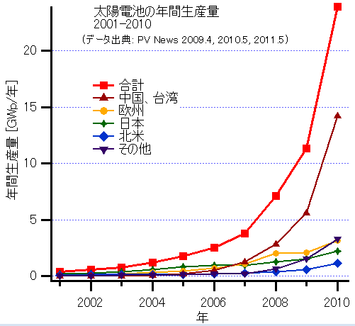 Annual production of solar cells by region (Japanese)